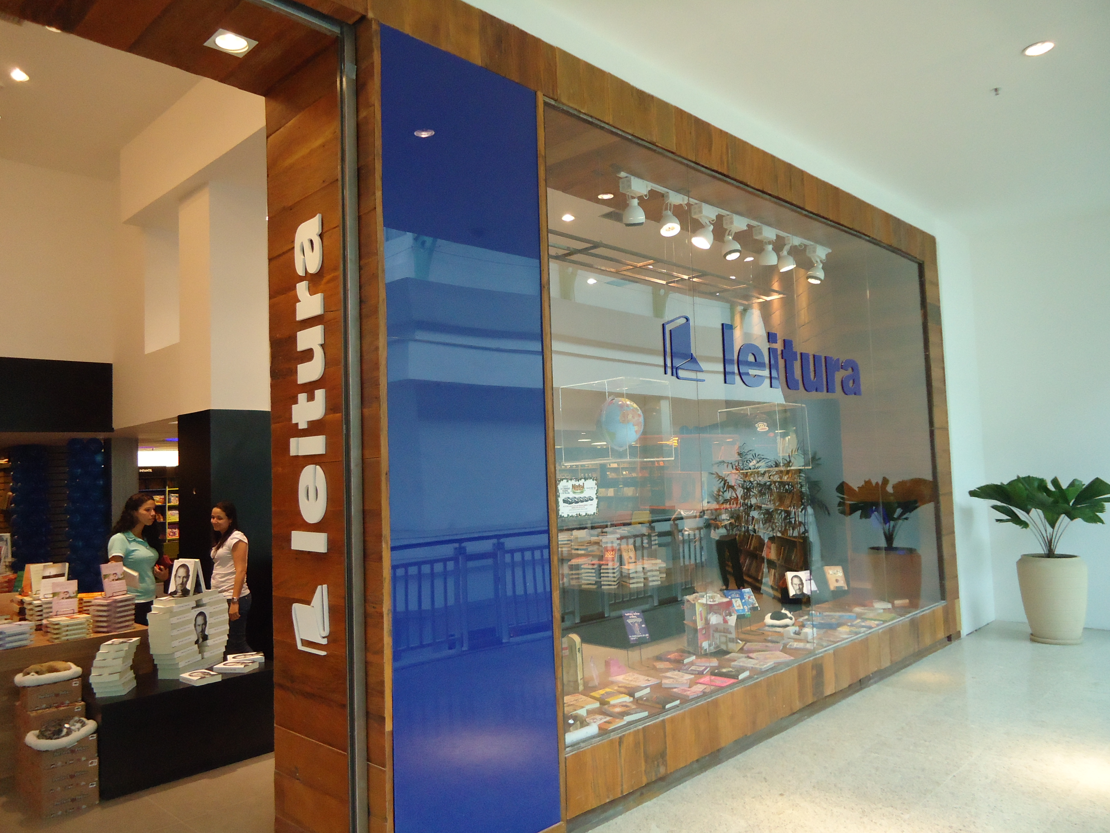 Facede of the Leitura Bookstore in the city of Salvador, Brazil.